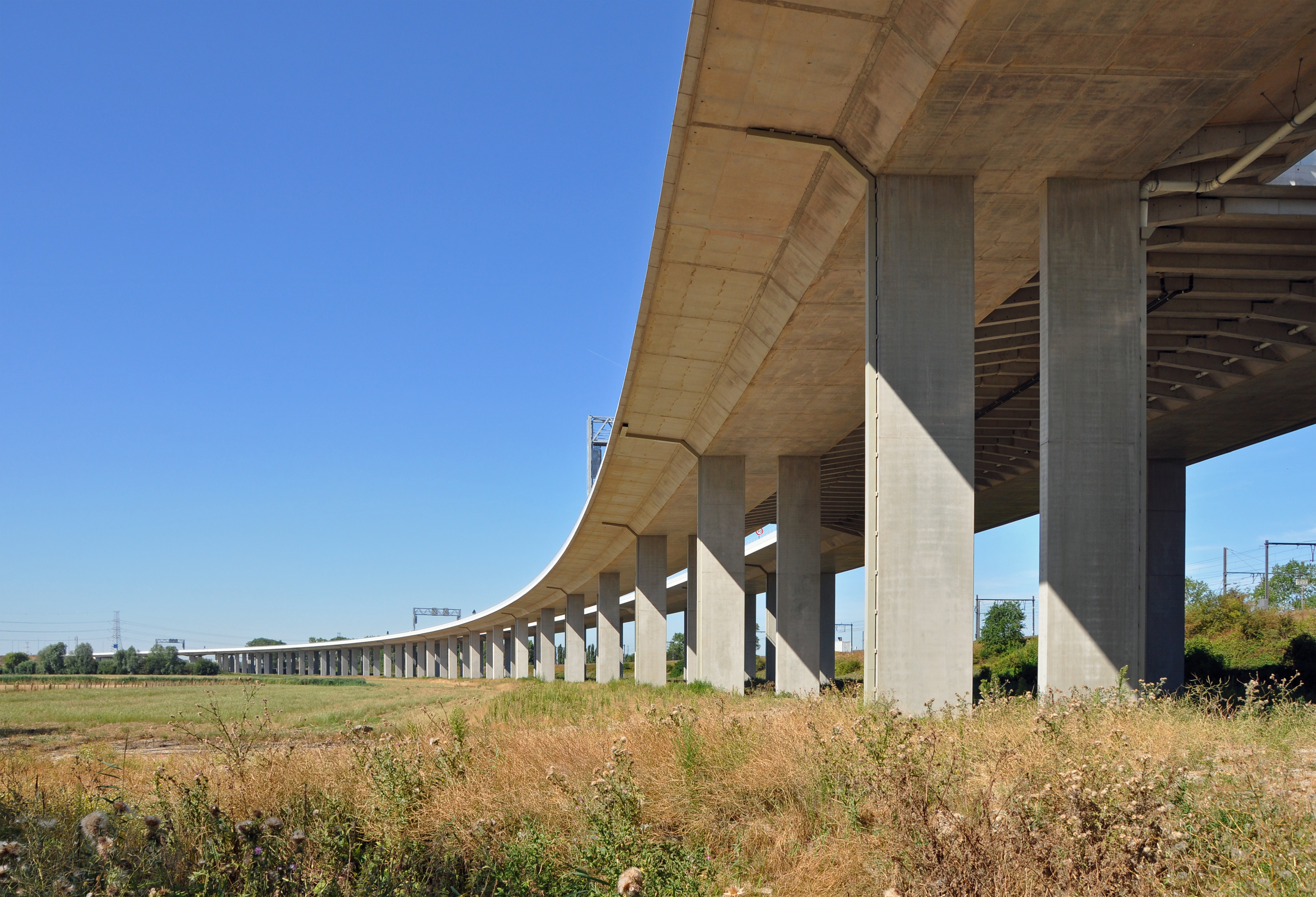 Bruges (Belgium): viaduct of A11 motorway between the Blauwe Toren and the bridge on the Boudewijn Canal